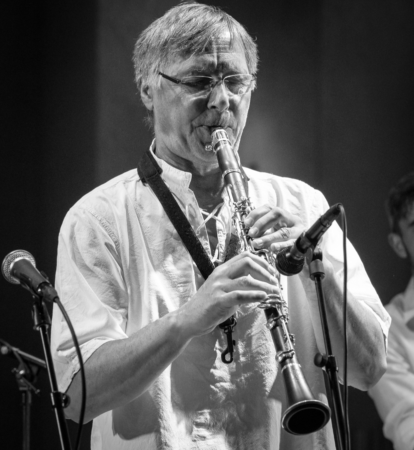 Georg Michael Reiss with Magnolia Jazzband and Topsy Chapman at the stage in Oslo Cathedral. The concert was part of Oslo Jazzfestival and took place on 17. August 2017. Lineup: Topsy Chapman (vocal), Anders Bjørnstad (trumpet), Georg Michael Reiss (clarinet), Gunnar Gotaas (trombone), Håkon Gjesvik (piano), Børre Frydenlund (banjo), Sebastian Haugen-Markussen (double bass) and Torstein Ellingsen (drums).